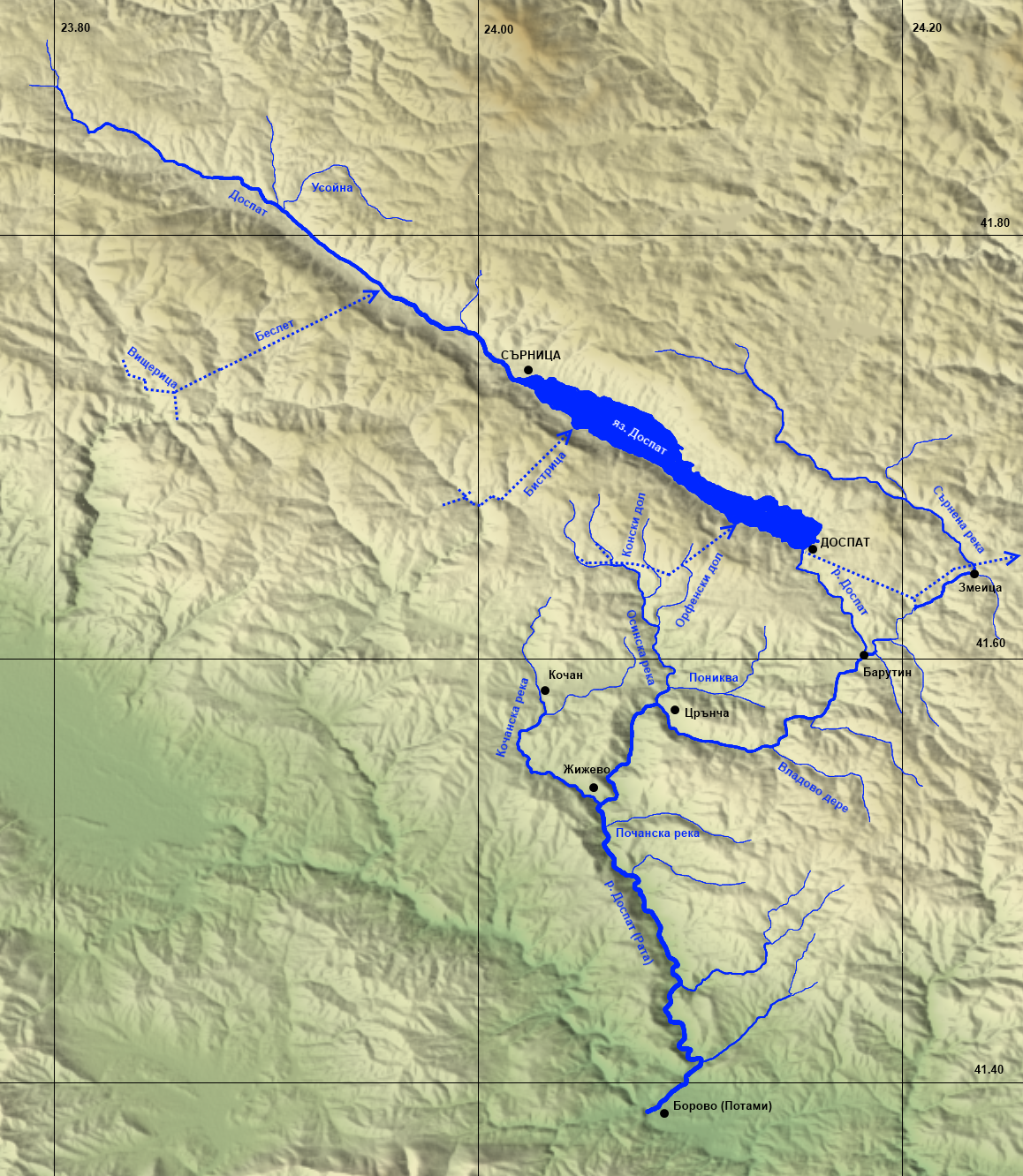 Basin of the Dospat River.